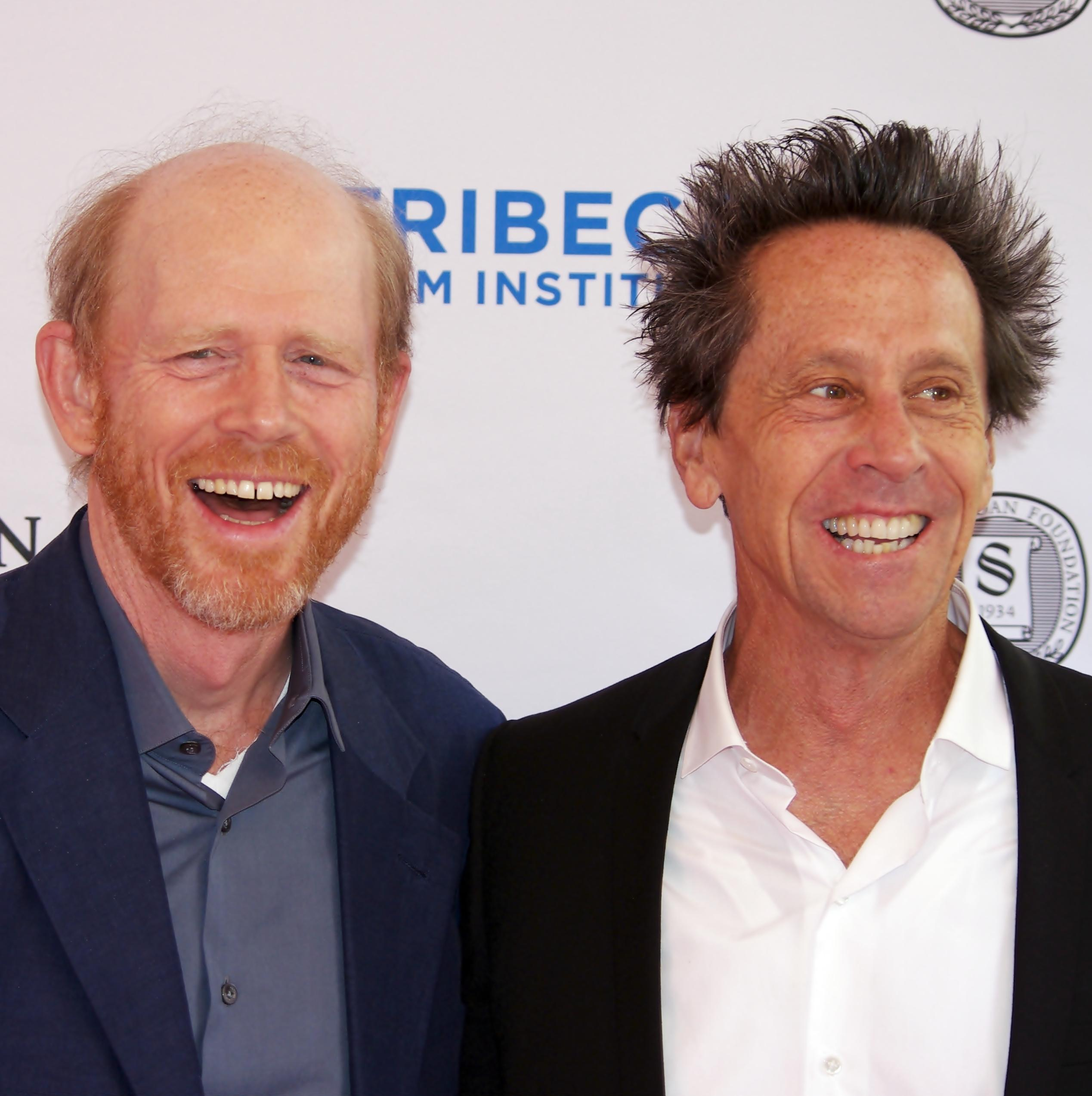 Ron Howard and Brian Grazer at Tribeca Talks After the Movie: A Beautiful Mind, Presented by Tribeca Film Institute and the Alfred P. Sloan Foundation.